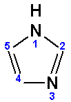 Imidazole (numbered) Česky: Imidazol (očíslovaný)